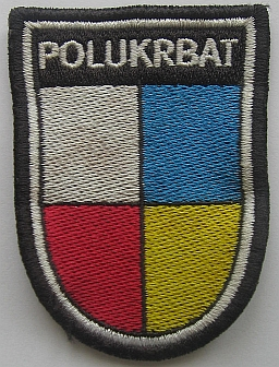 naszywka